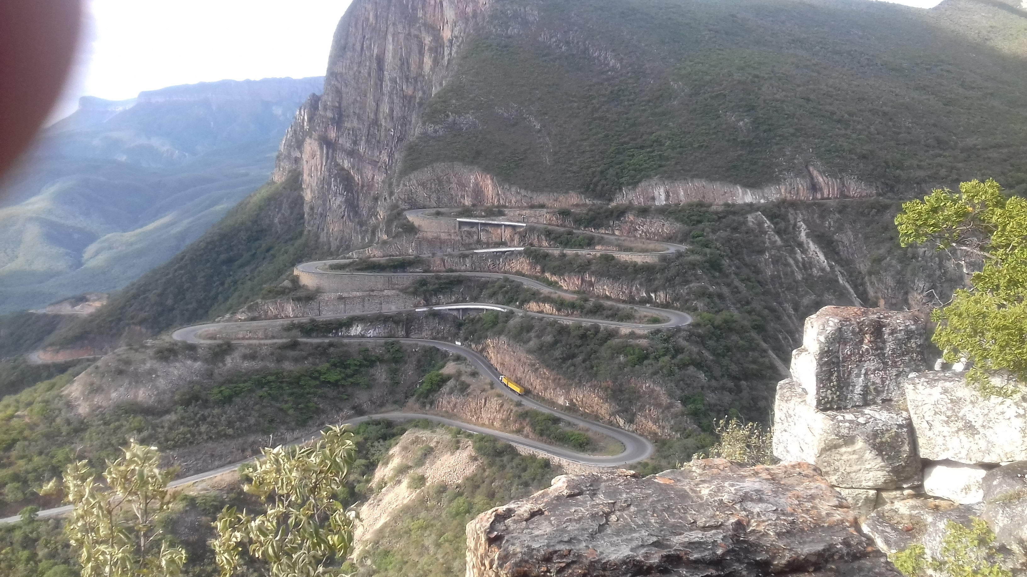 Serra da Leba road that connects mainly the cities of Lubango and Moçâmedes in southern Angola.